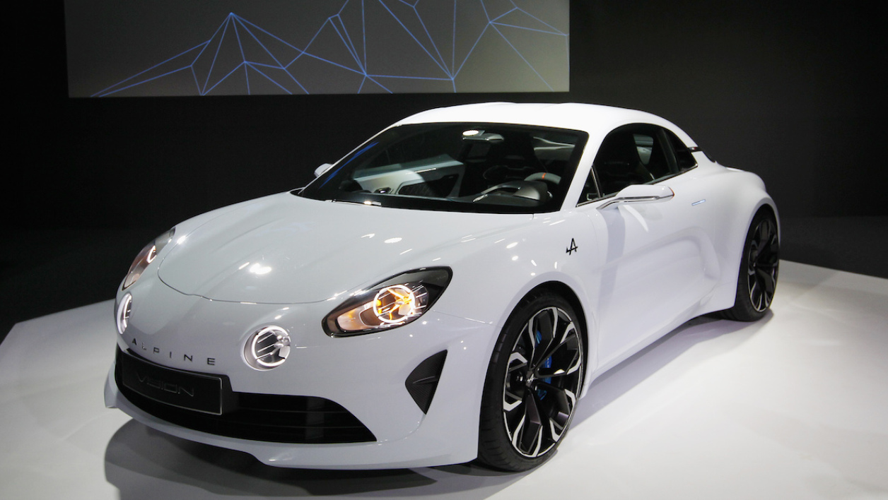 This was taken in 2016 at the 86th Geneva Motor Show and the public unveiling of this car.